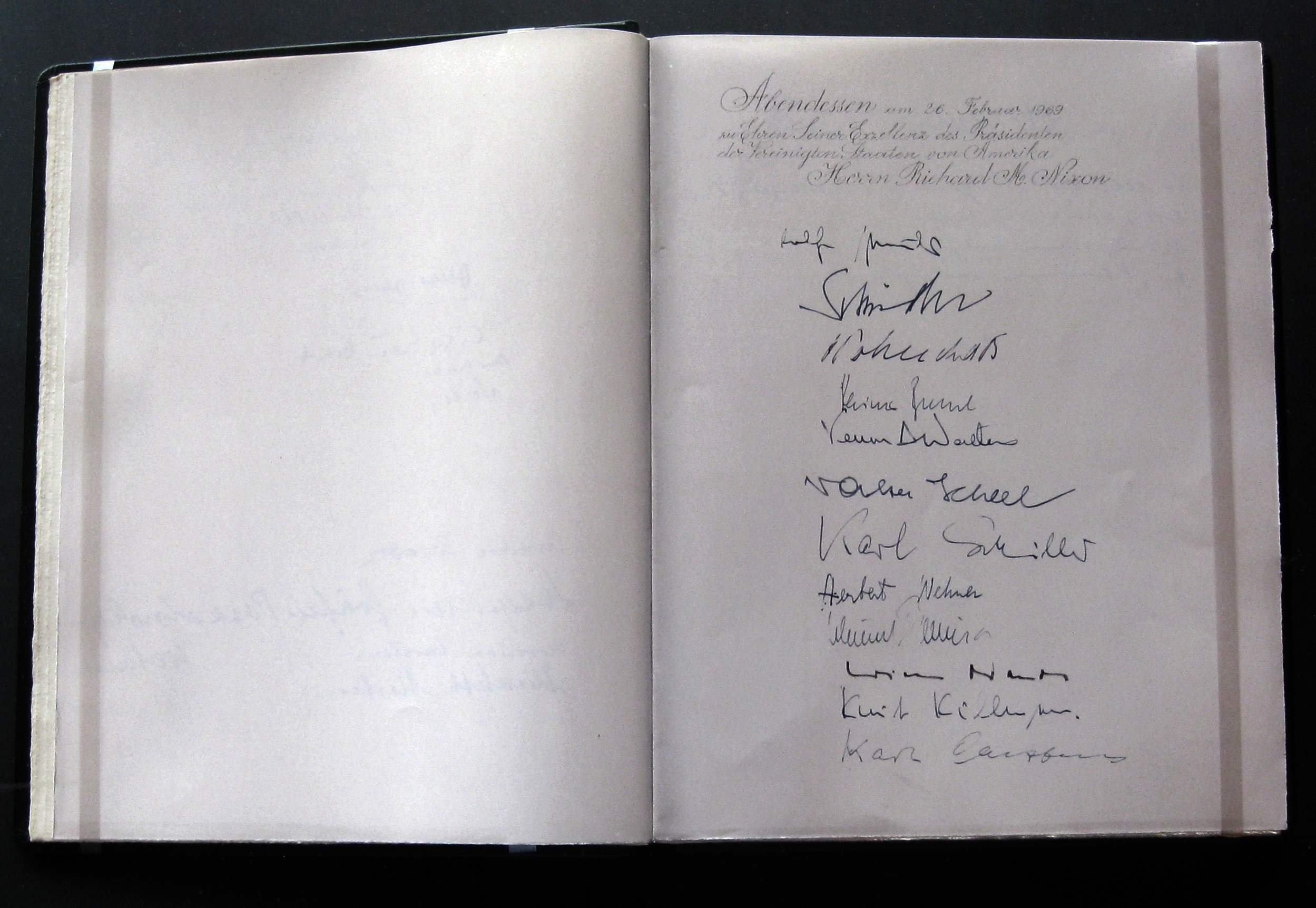 Germany, Bonn: the former chancellor's bungalow, guestbook. Text: Abendessen am 26. Februar 1969 zu Ehren Seiner Exzellenz, des Präsidenten der Vereinigten Staaten von Amerika Herrn Richard M. Nixon Translation: Dinner on 26 February 1969 in honor of His Excellency the President of the United States of America Mr. Richard M. Nixon